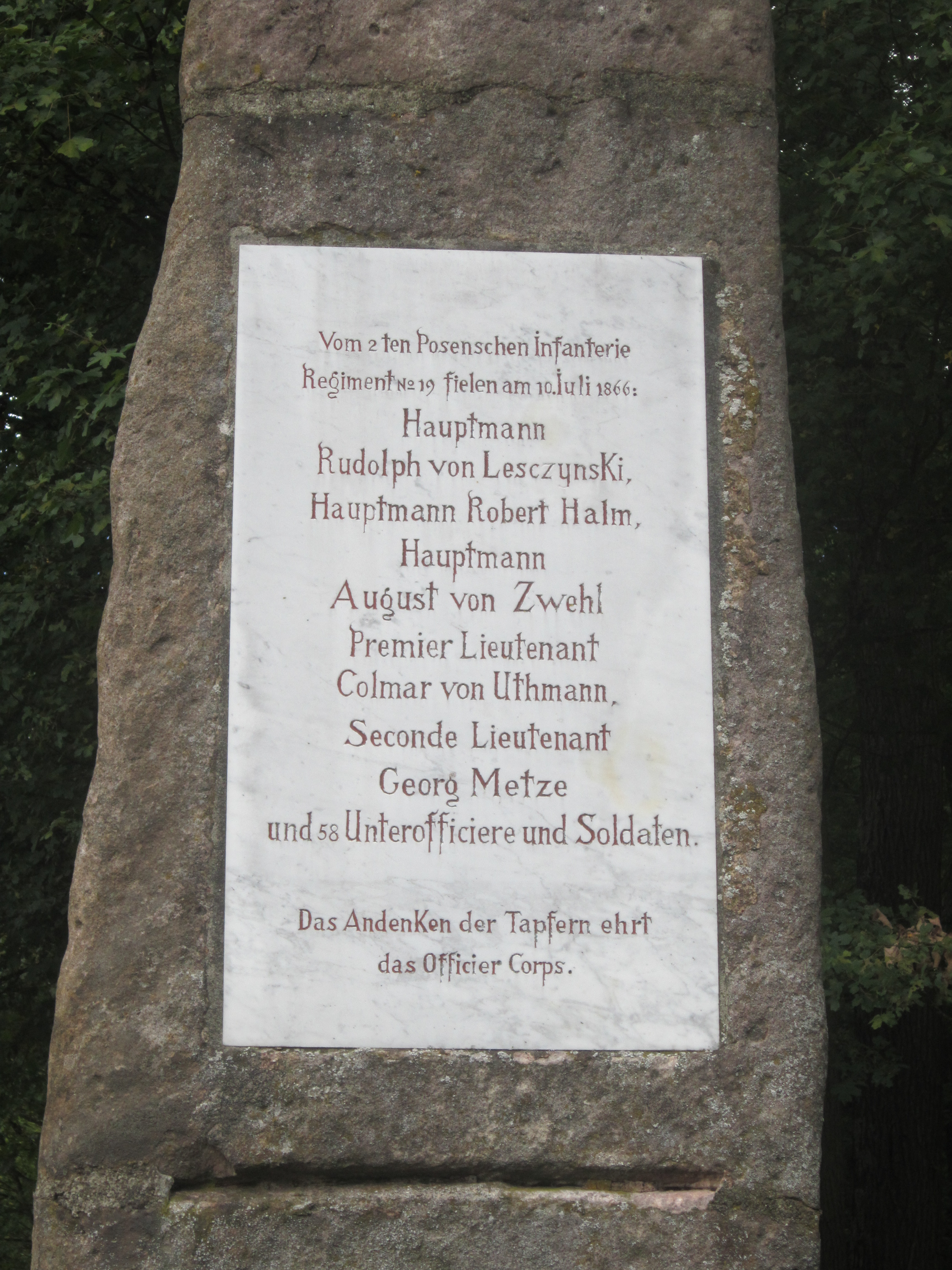 Inscription on the war memorial in Winkels, a quarter of the German spa town of Bad Kissingen in Lower Franconia (Bavaria), for the 2nd Infantery regiment from Poznań in the Austrio-Prussian-War 1866.